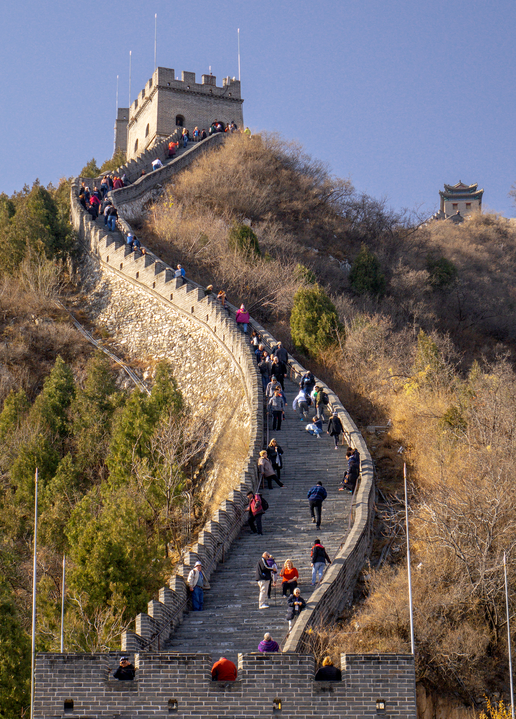 Juyongguan Great Wall is one of the three most famous passes along the Great Wall of China; 37km from Beijing.